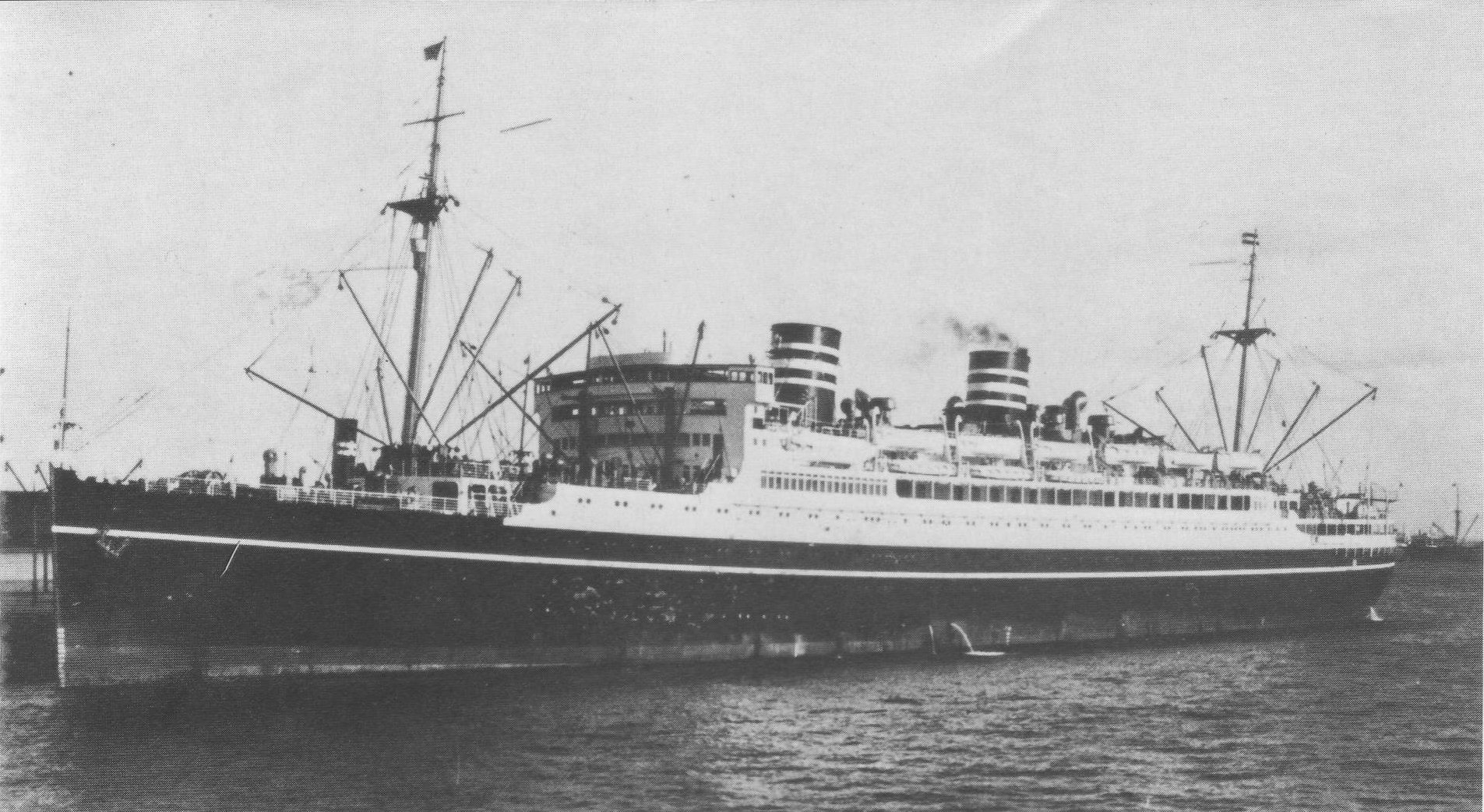 NYK Line "Asama Maru"